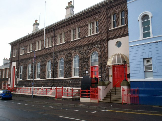 Lurgan Town Hall, Union Street, Lurgan The Town Hall was built in 1858 and has recently been refurbished. It has a simple and restrained exterior but boasts a fine hall. The Victorian style auditorium and balcony can seat 272 people and smaller rooms are available for community use